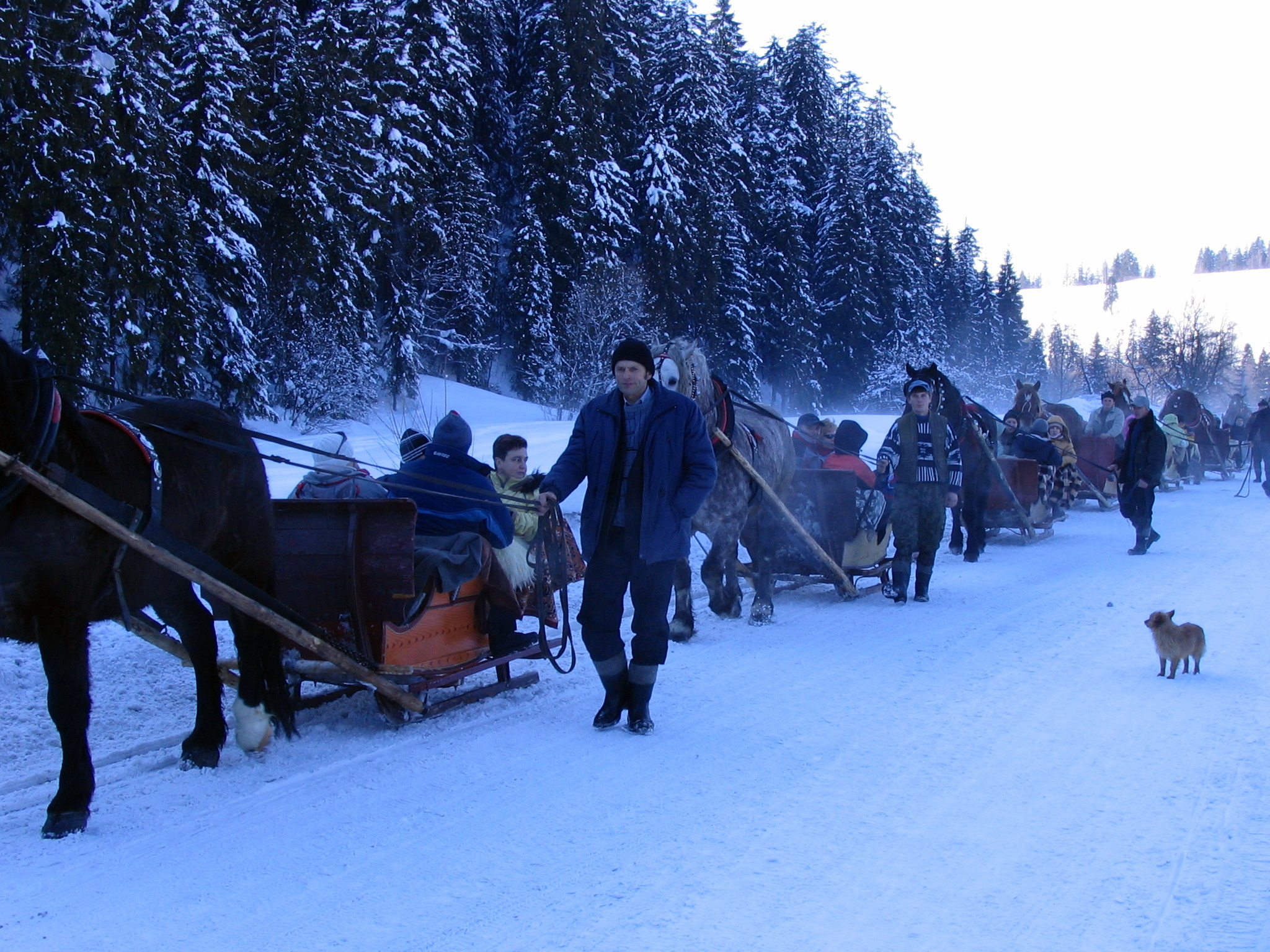 kulig in Gorce